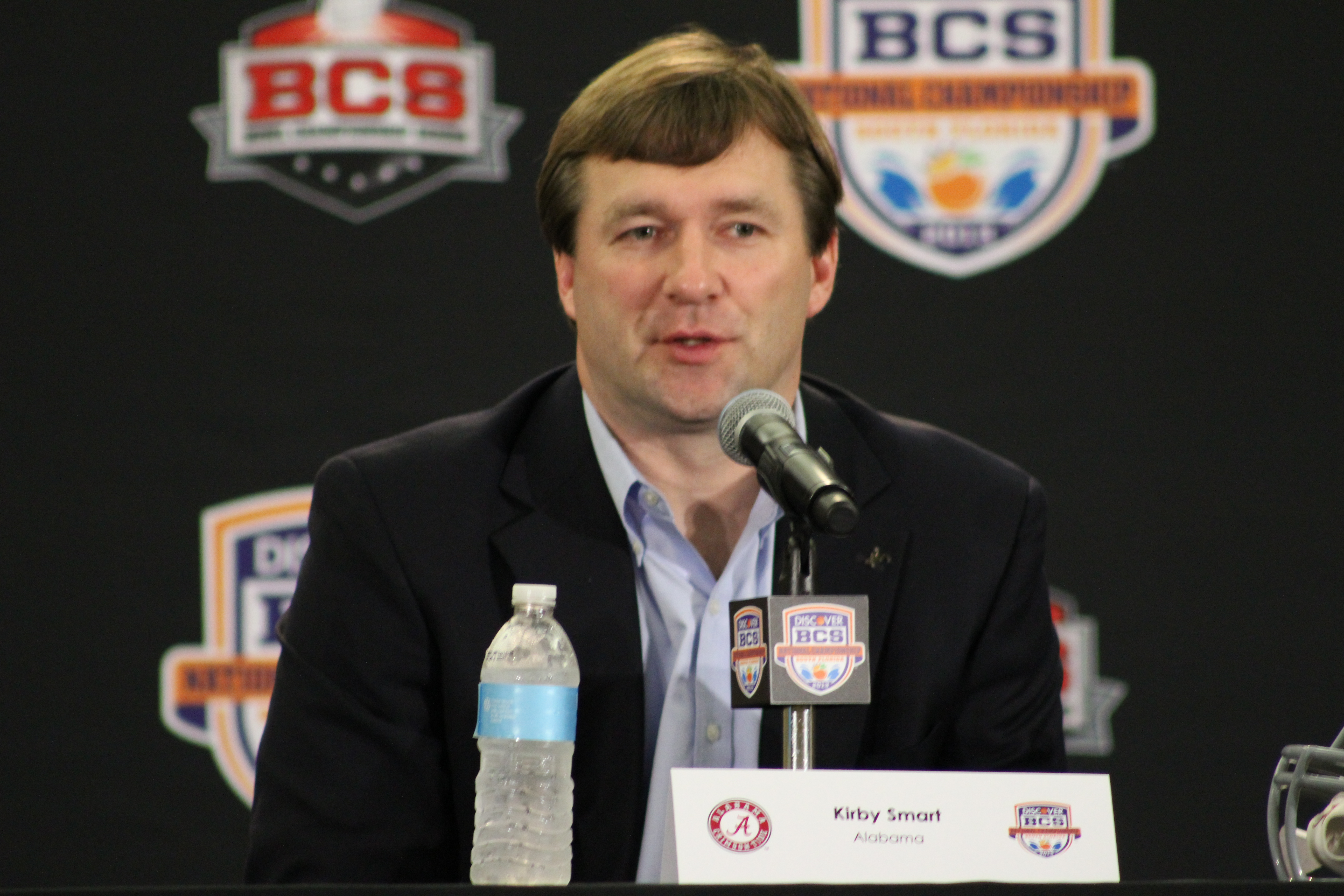 Kirby Smart in January 2013.